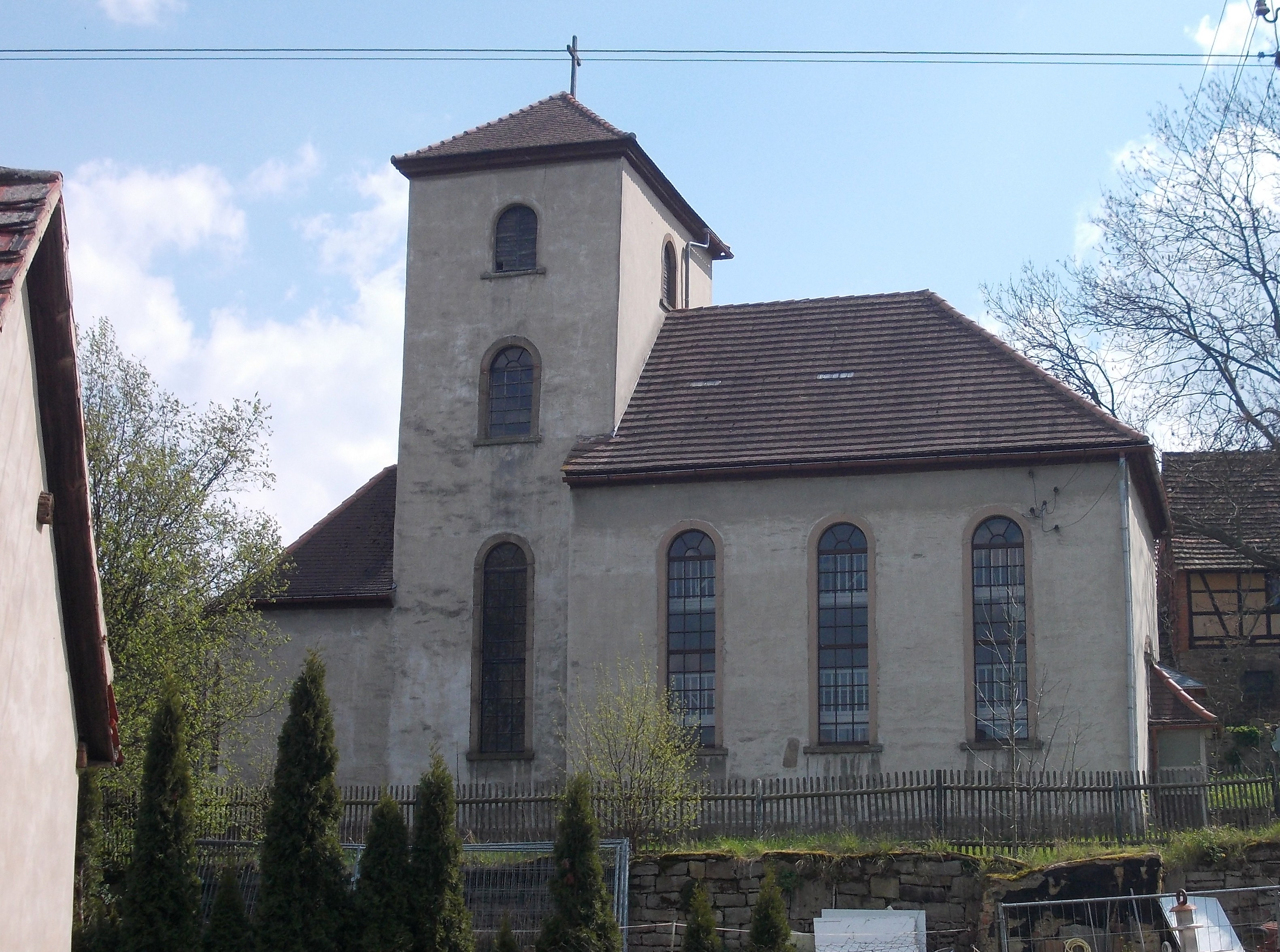 Thiemendorf church (Heideland, district: Saale-Holzland-Kreis, Thuringia)